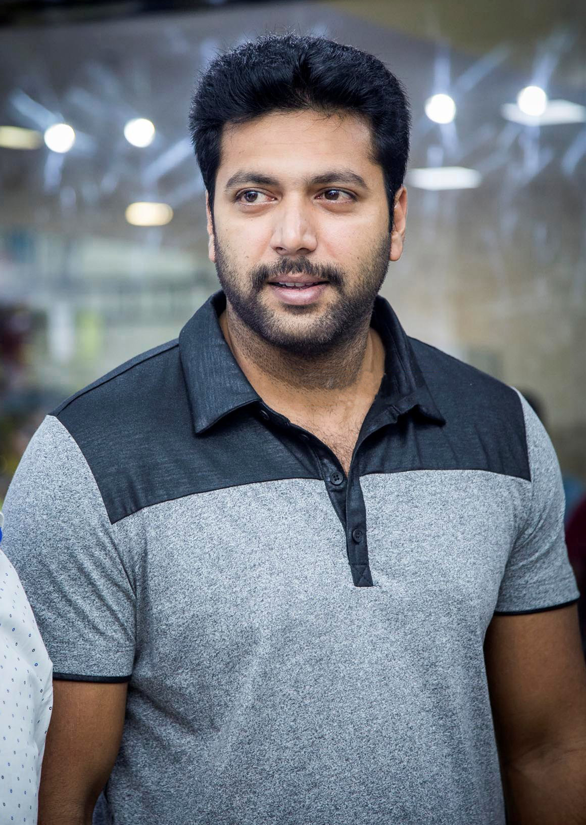 Jayam Ravi at Naya Gadget Shop Launch Event